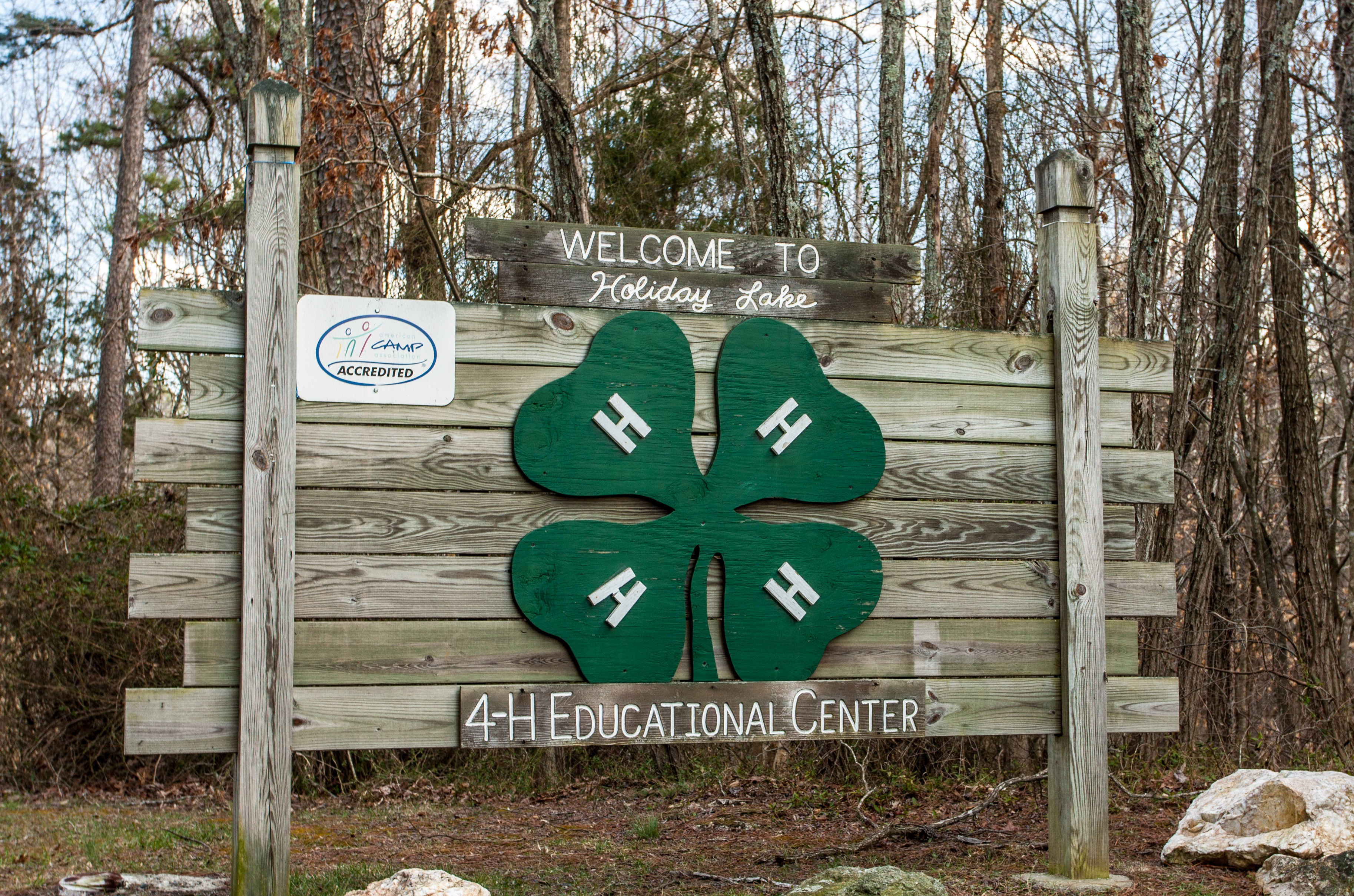 sign at entrance to Holliday Lake 4-H Educational Center